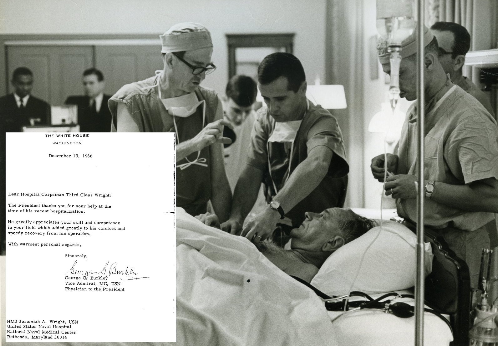 Jeremiah Wright (behind the I.V. pole) as a Navy Corpsman Tending to President Lyndon B. Johnson. Bill Moyers was the President's Press Secretary at the time, and is behind Wright. Identity of two men standing at center needed. A letter of thanks on behalf of the President is superimposed on photo.